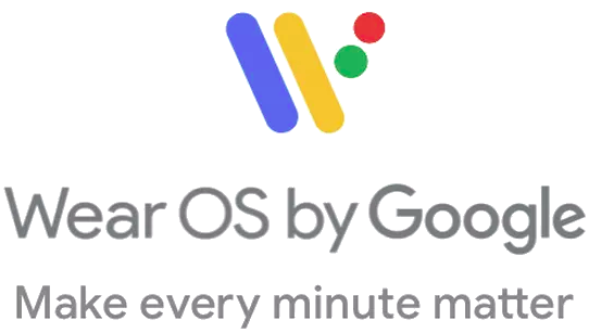 Logo of Wear OS